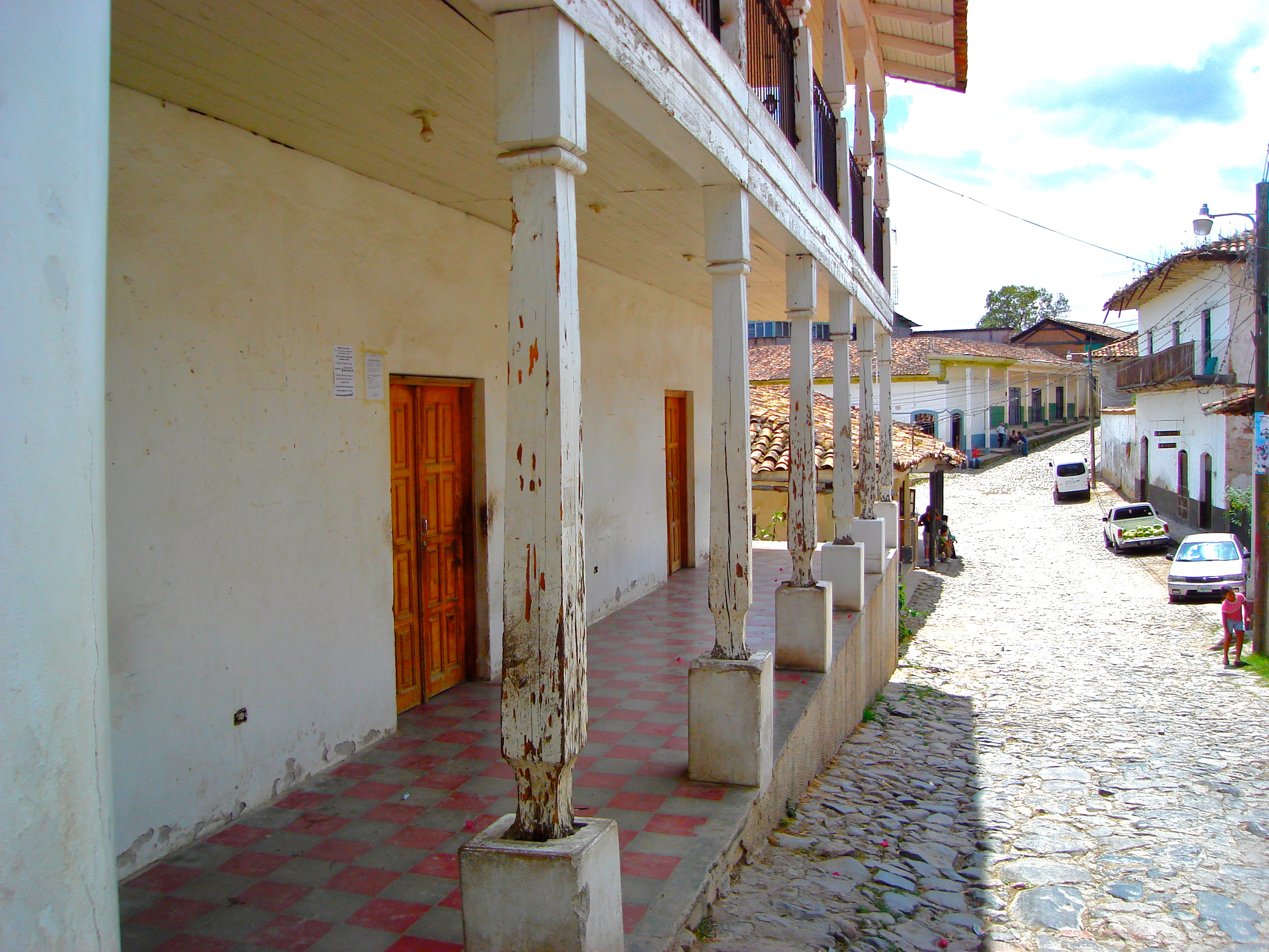 One of the main streets of Yuscarán, Honduras